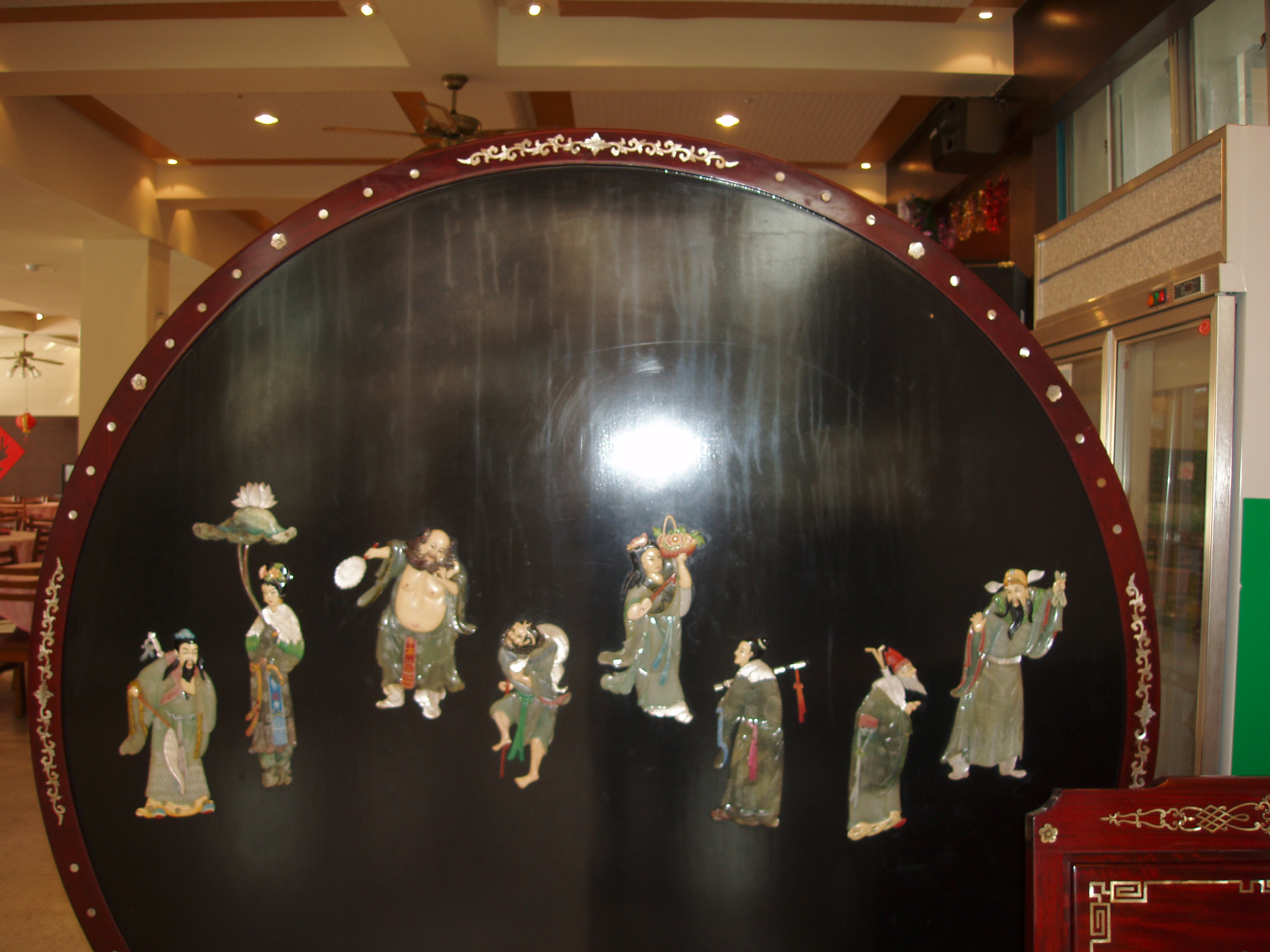 as shown.